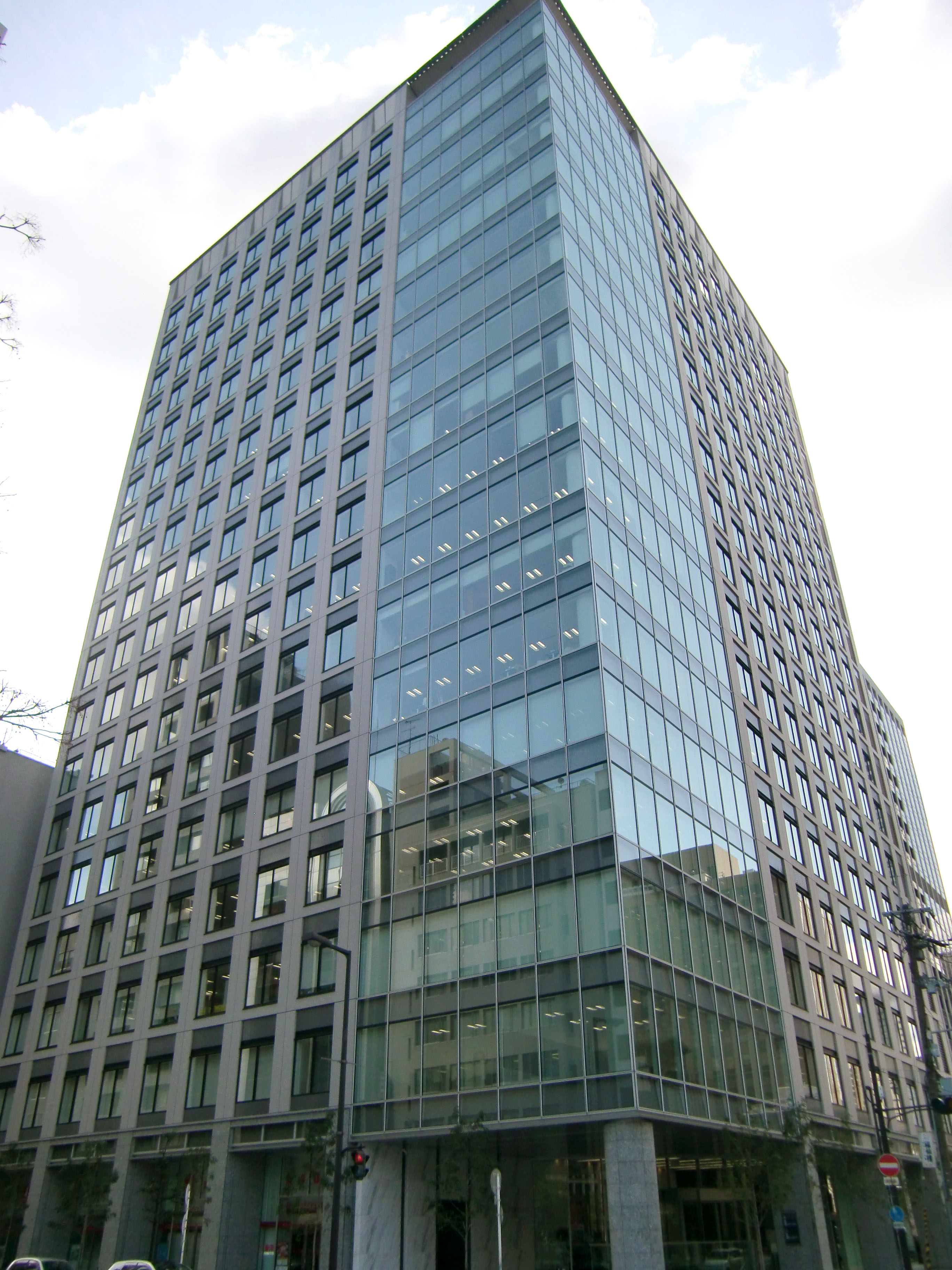 Yodoyabashi Square,2-6-18 Kitahama Chuo-ku Osaka-City Osaka Japan.